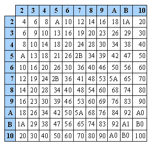 I created this as a way of illustrating the duodecimal article